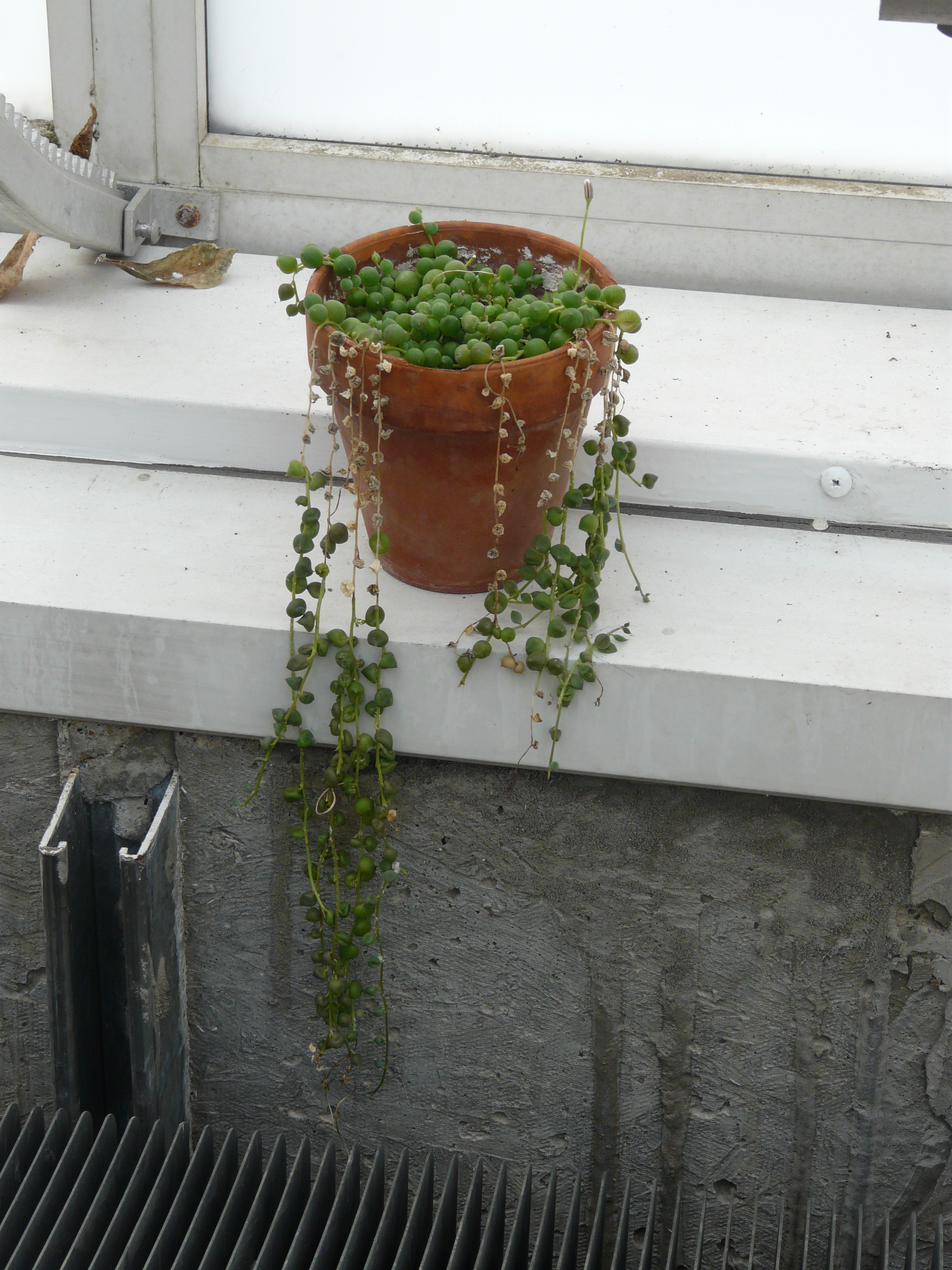 Phipps Conservatory